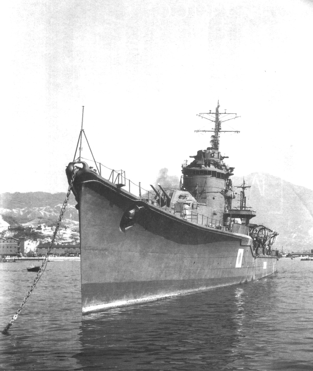 Imperial Japanese Navy destroyer Yoizuki (Akizuki-class) in Kure after the war, 16 October 1945. The second artillery turret is removed.